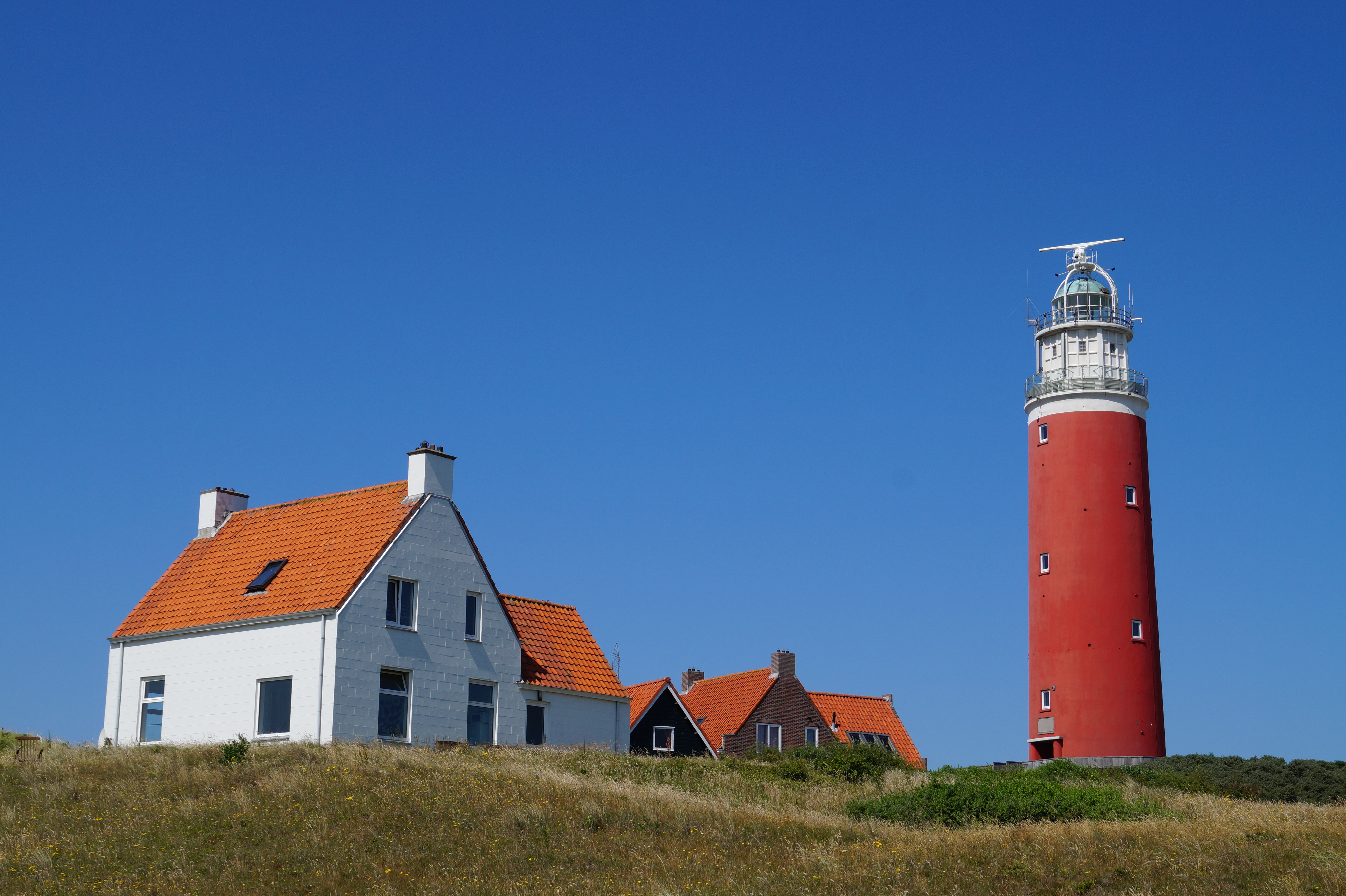 Lighthouse Eierland, Texel, the Netherlands